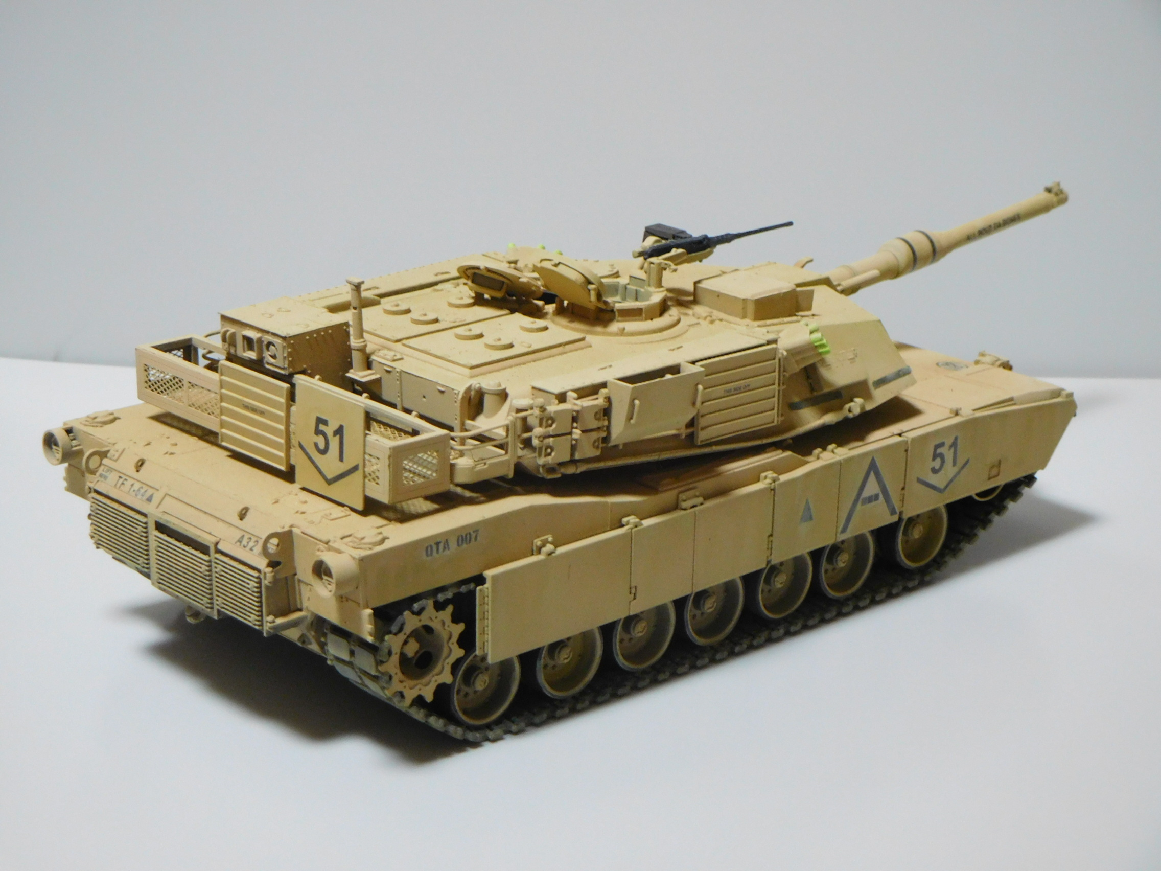 Dragon models, 1/35 scale, M1A1 AIM ,during the Iraq War 2003, built and painted by me.